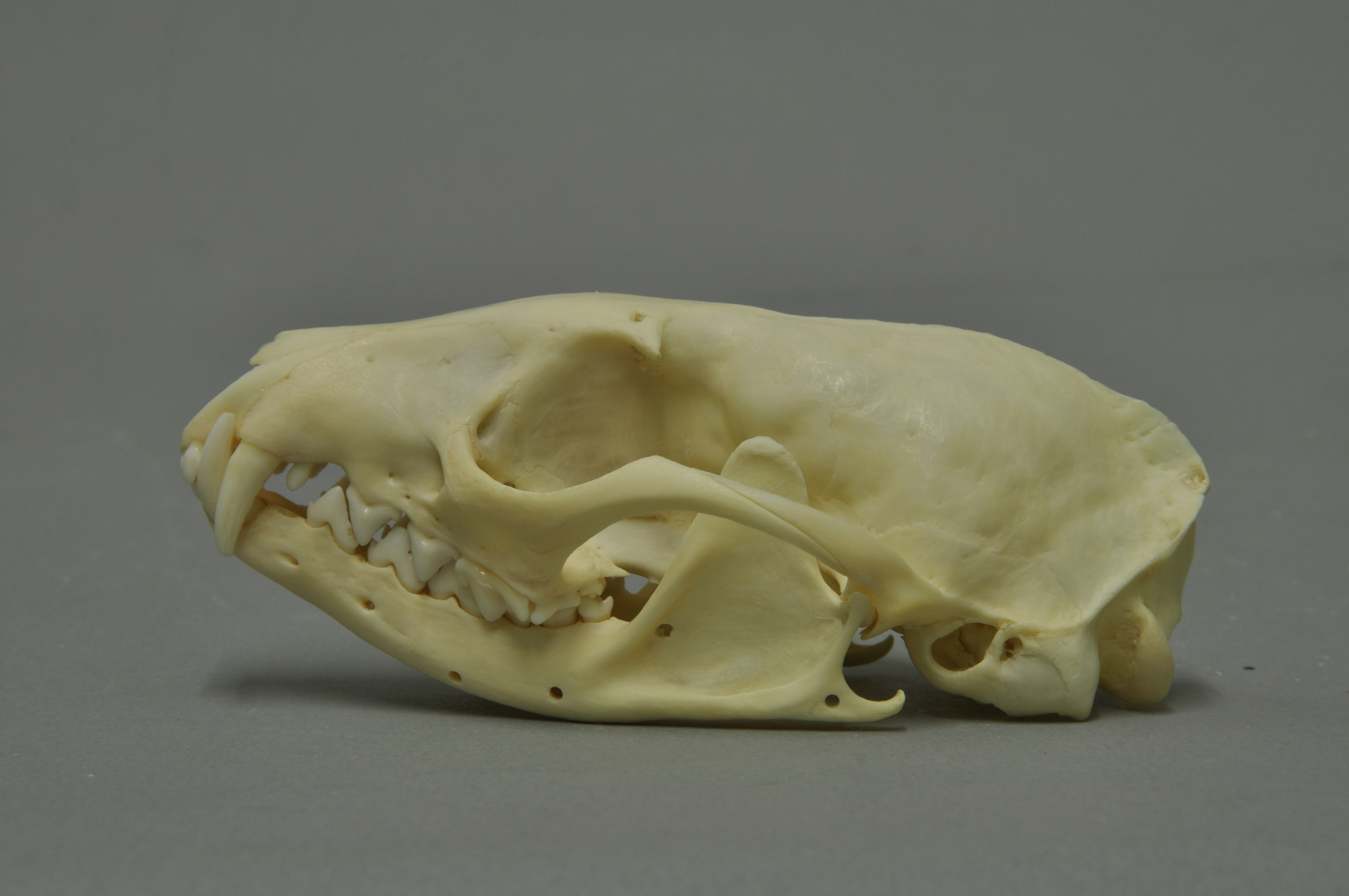 Common genet Genetta genetta, skull, Coll. Museum Wiesbaden